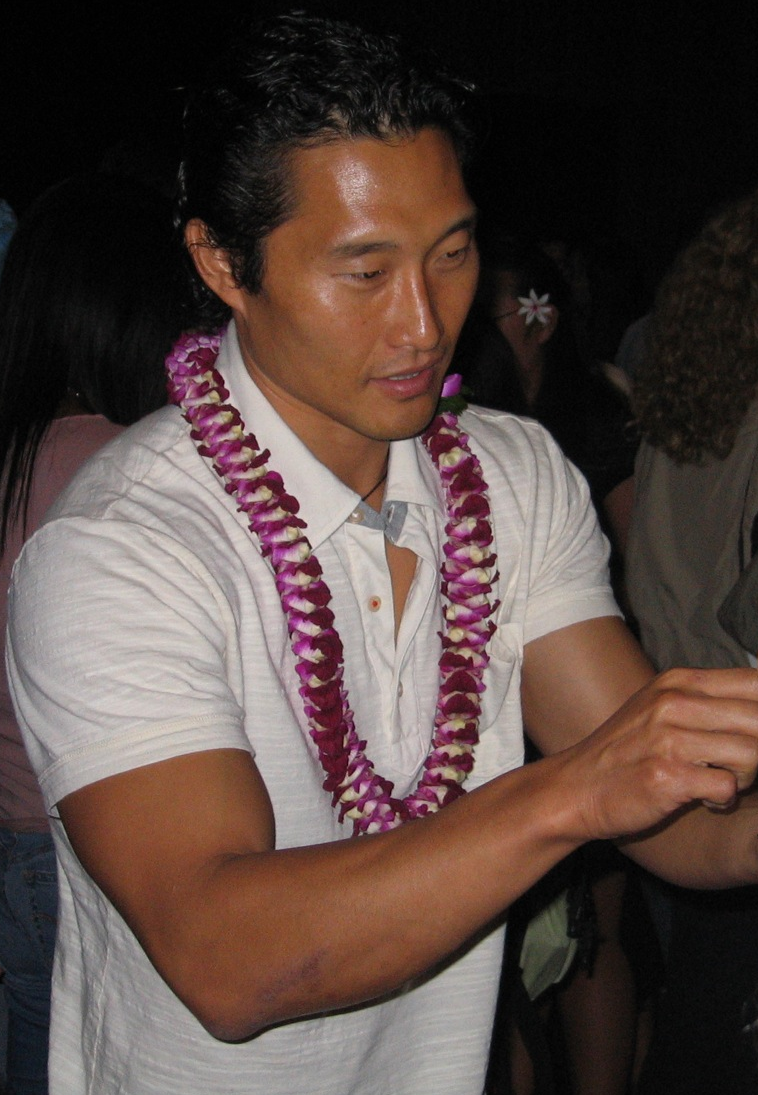 Daniel Dae Kim signs autographs at the Hawaii International Film Festival.